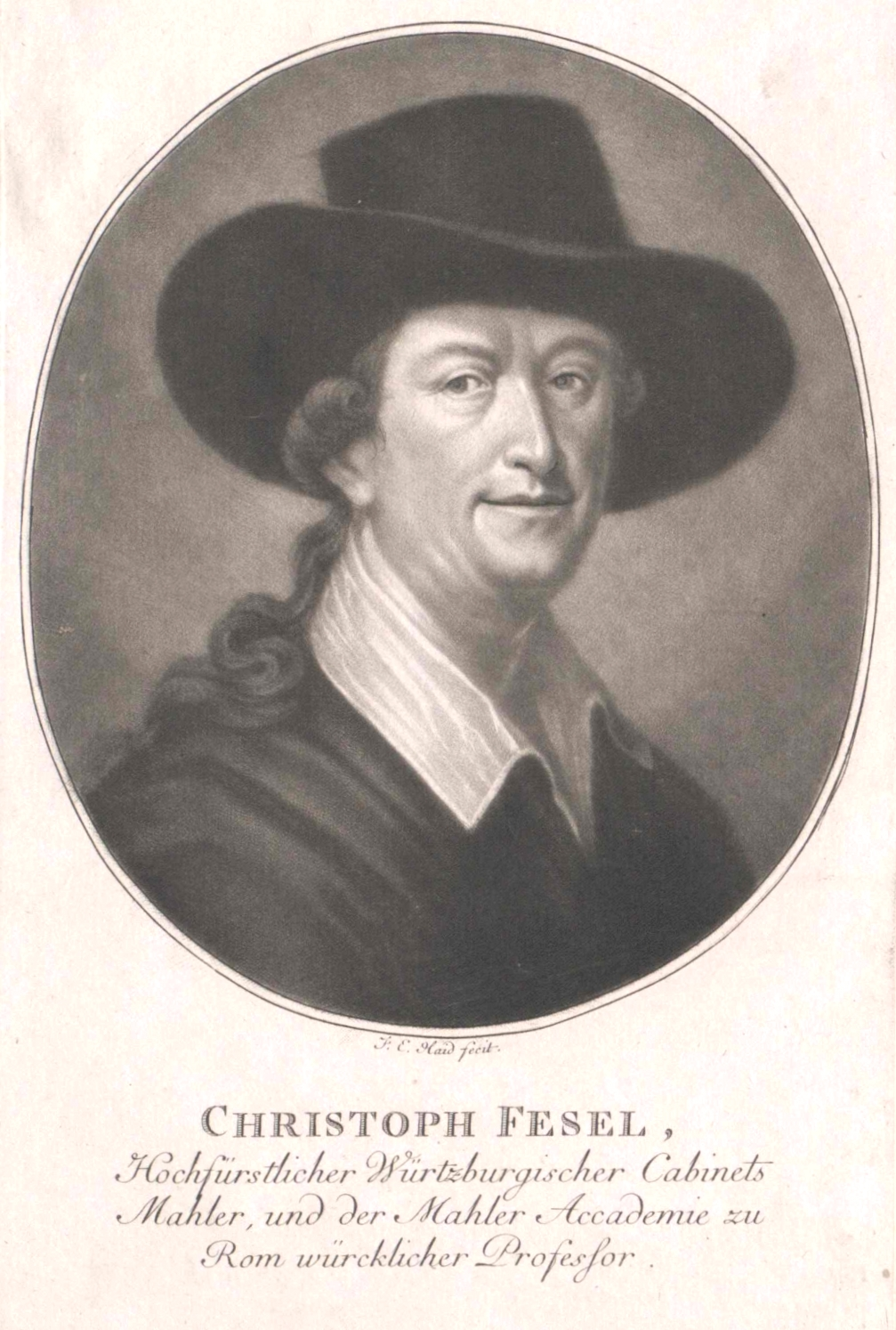 Christoph Fesel (1737–1805)